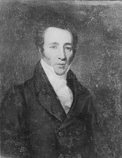 Portrait of Senator Thomas Hill Williams of Mississippi